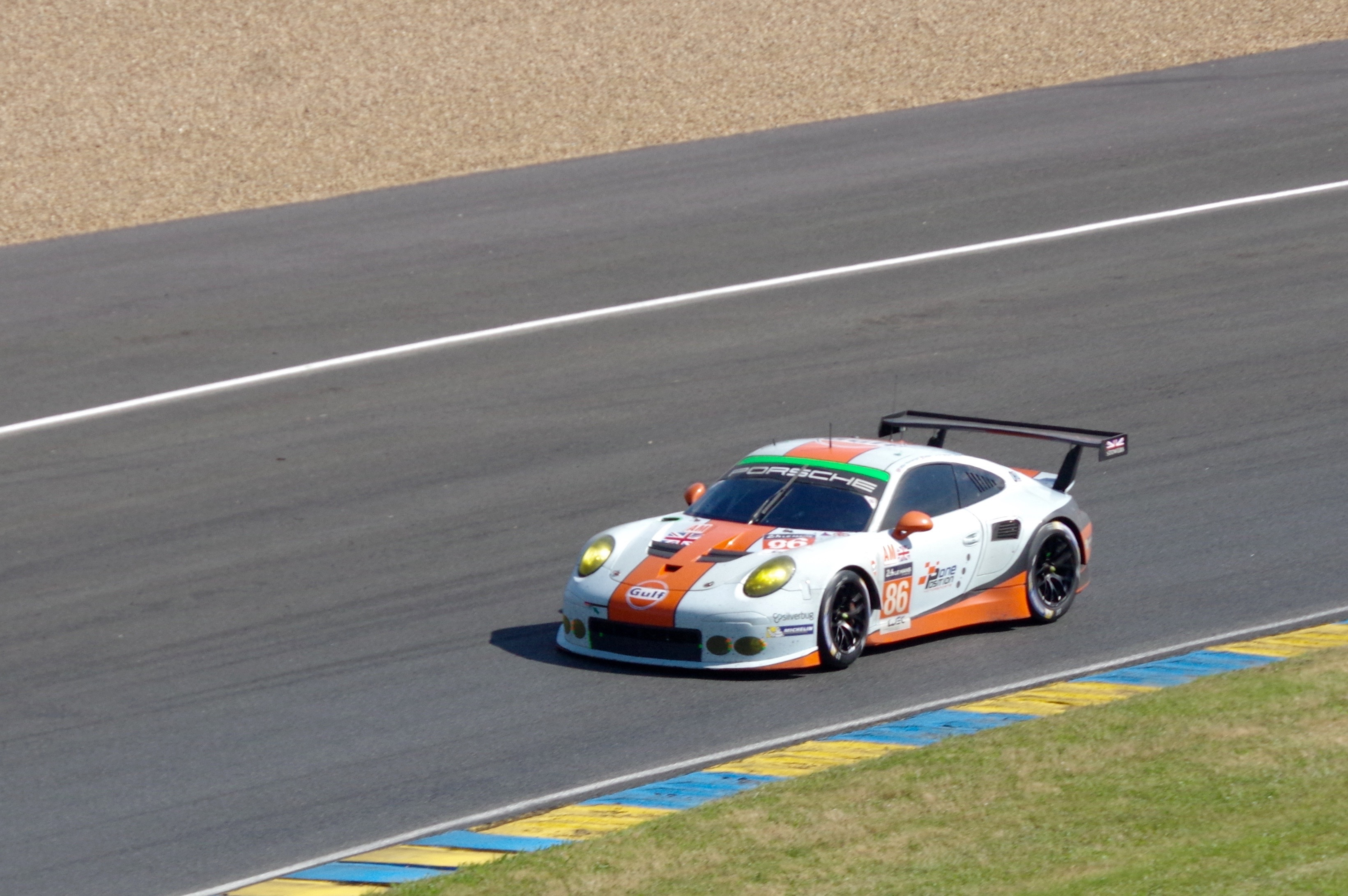 Gulf Racing's Porsche 911 RSR driven by Mike Wainwright, Adam Carroll and Ben Barker at the 2016 24 Hours of Le Mans